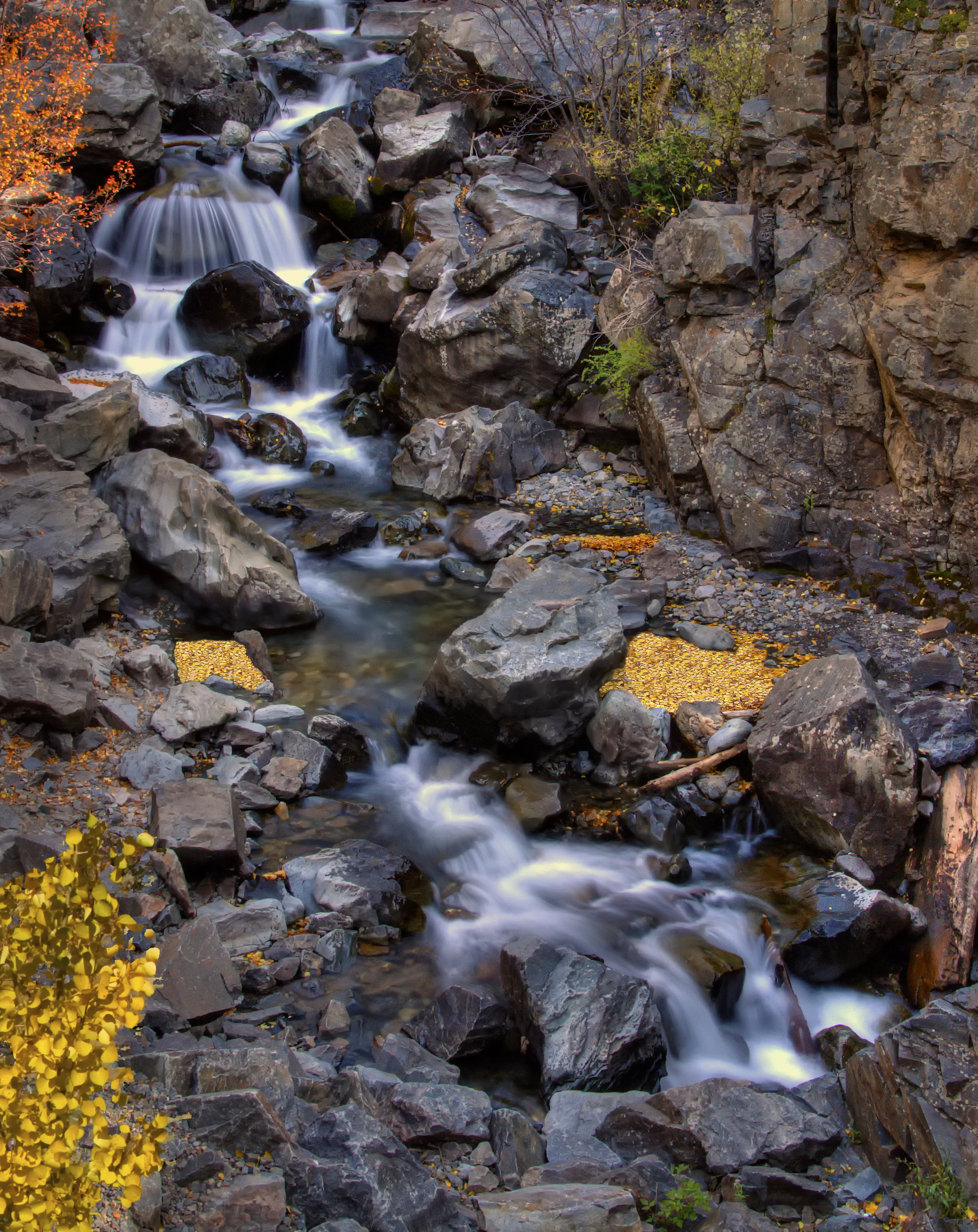 Aspen leaves pool in eddies along Bear Creek, south of Ouray, CO. Enhanced version of one I already posted.